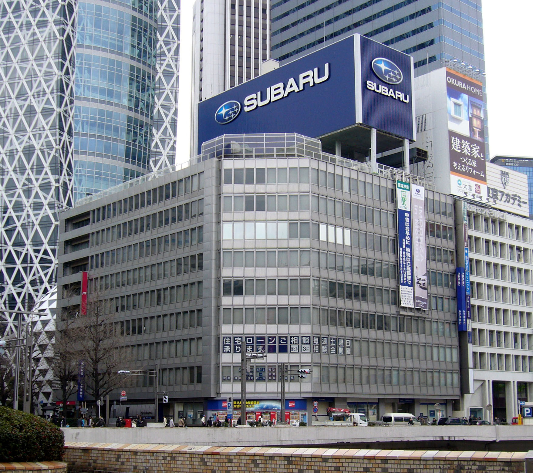 Fuji Heavy Industries Ltd. headquarters (Tokyo, Japan)